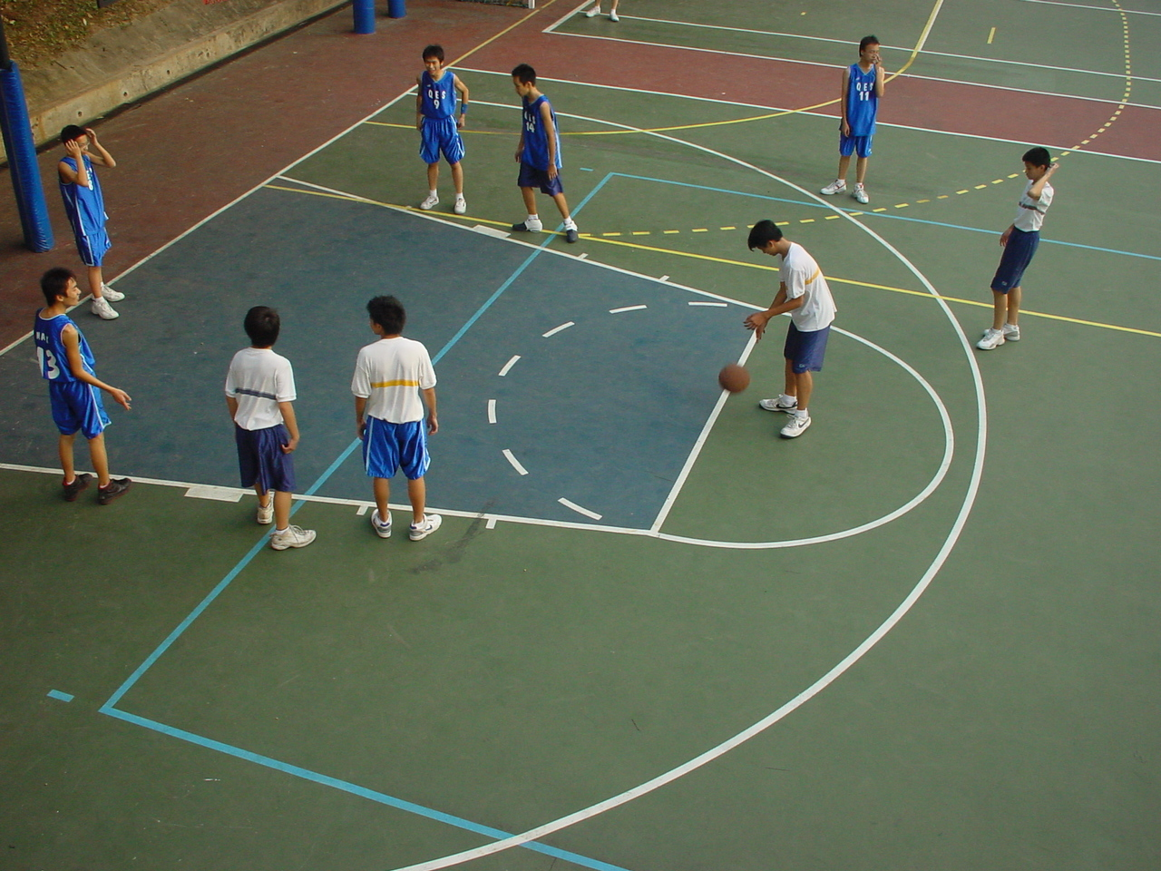 Playground of Queen Elizabeth School at Sai Yee Street, Mong Kok, Kowloon, Hong Kong位於香港九龍旺角洗衣街的伊利沙伯中學的操場